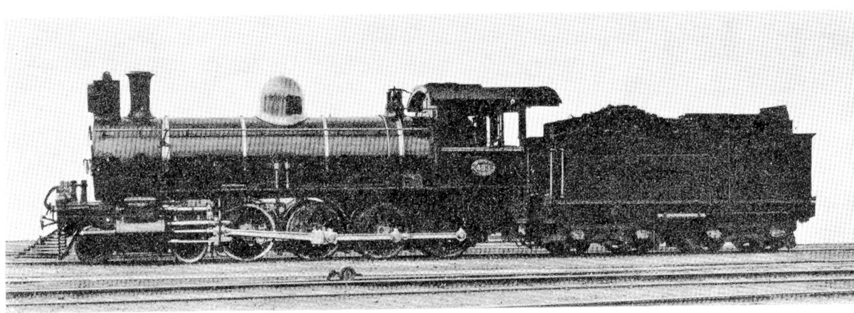 Ex Central South African Railways Class 8-L3 483 (4-8-0) South African Railways Class 8C 1174 (4-8-0) Builder's Number: NBL 15815